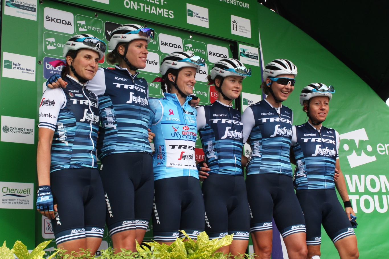 The Trek-Segafredo cycling team at the start of day three of the 2019 Women's Tour. They are Lizzie Deignan in the blue Best British rider's jersey (who went on to win the tour), Abi van Twisk, Elisa Longo Borghini, Anna Plichta, Ellen van Dijk and Trixi Worrack.